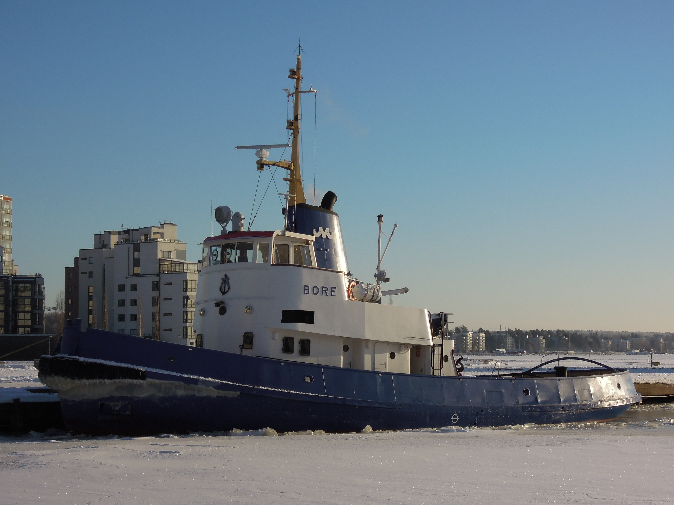 Bore av Västerås, tugboat located in Västerås, Sweden. Built in 1962 by Öresundsvarvet AB in Landskrona, Sweden.